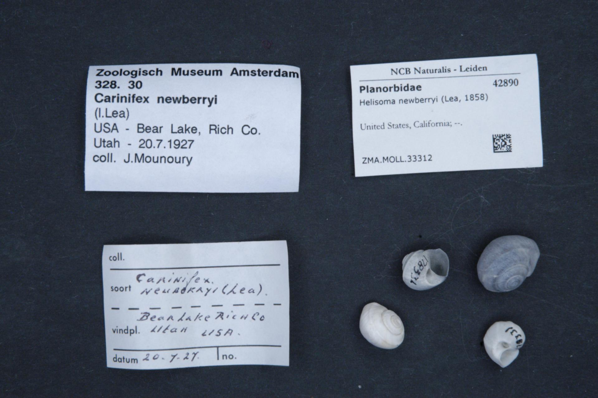 Helisoma newberryi (Lea, 1858)